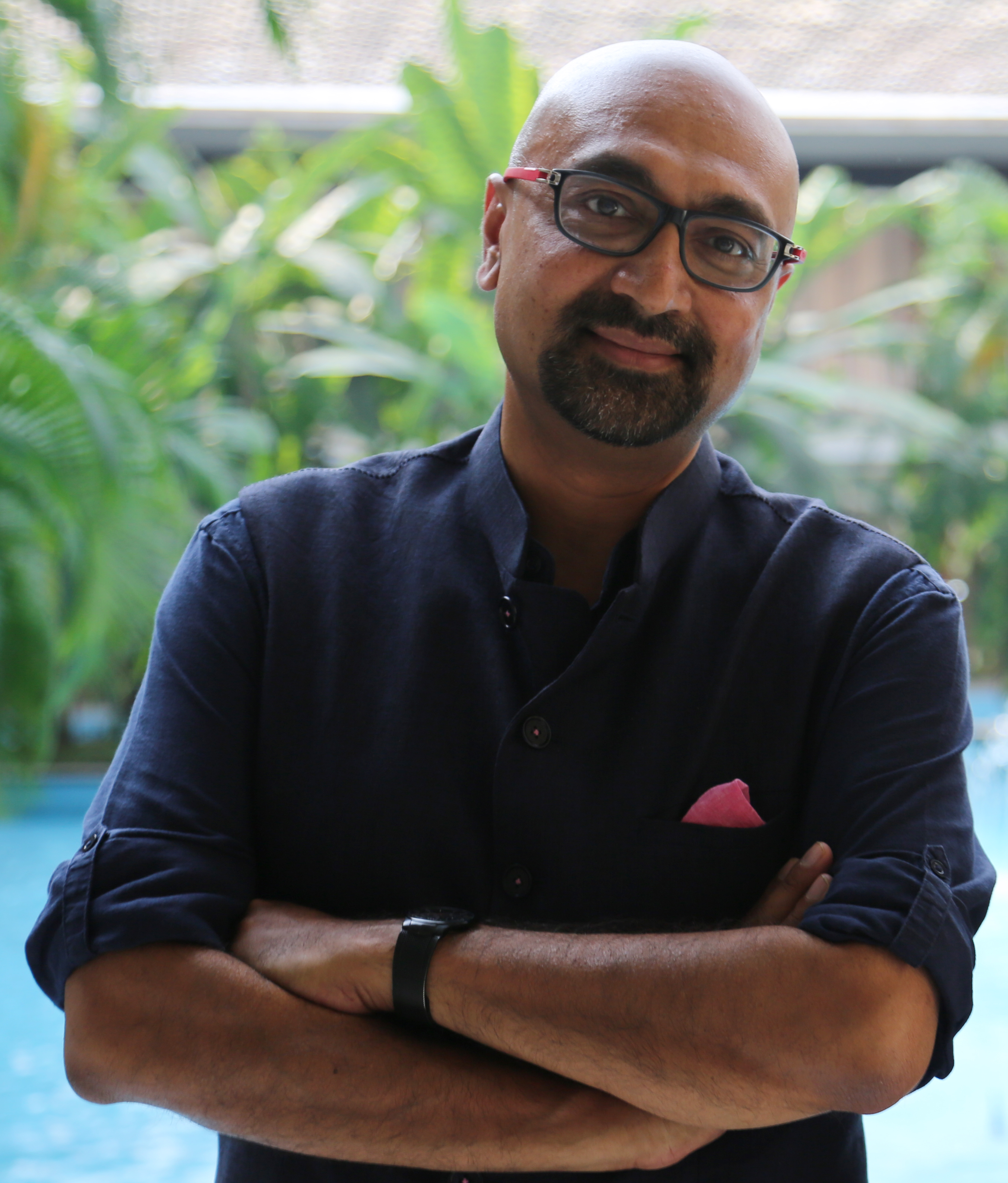 Bobby Ghosh with Charge d' Affaires MaryKay Carlson